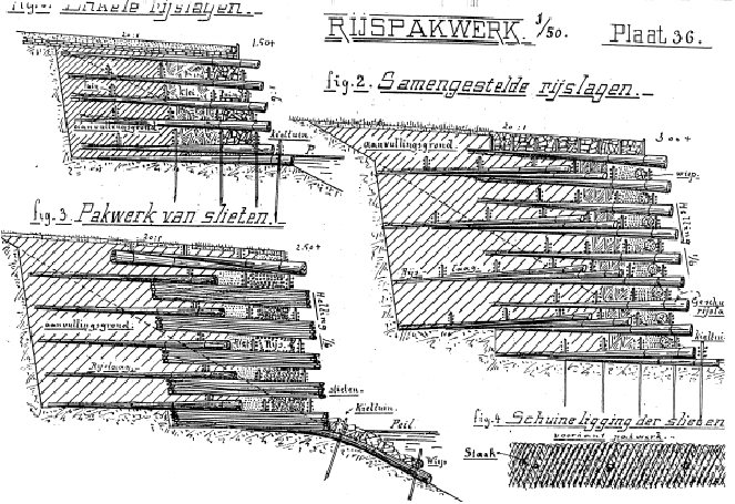 In the past brushwood was also used for making constructions like this mooring facility